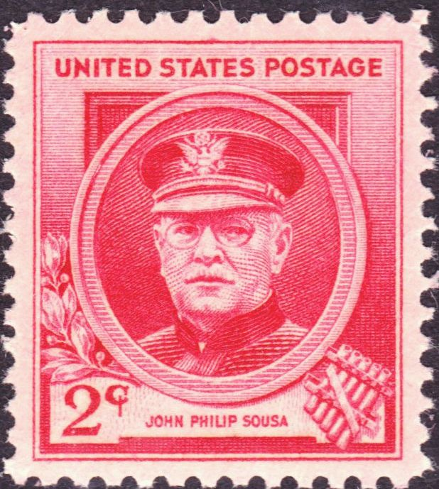 John Philip Sousa 1940 Issue 2c US Postage stamp